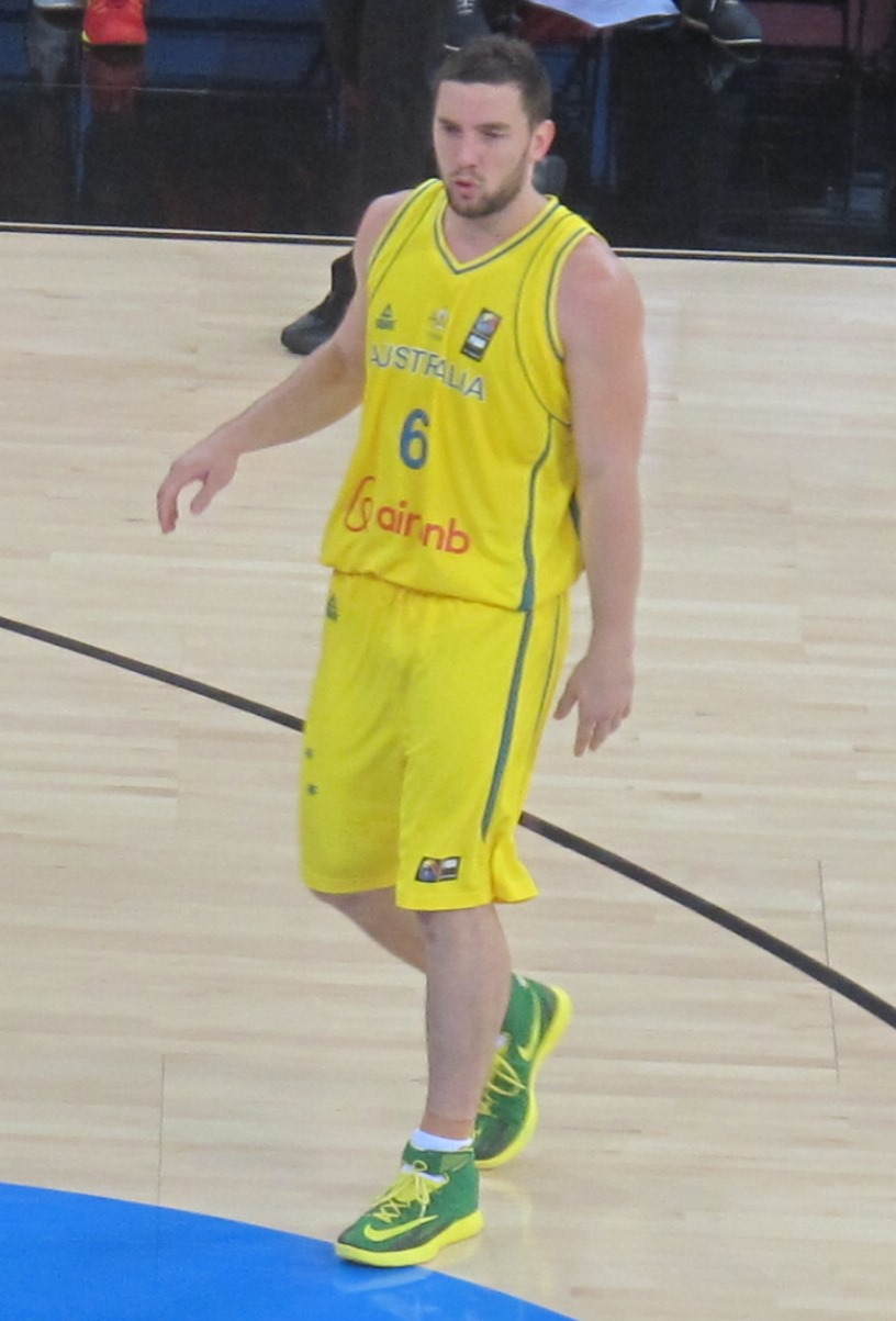 Category:Uploaded This file is made available under the Creative Commons CC0 1.0 Universal Public Domain Dedication. The person who associated a work with this deed has dedicated the work to the public domain by waiving all of their rights to the work worldwide under copyright law, including all related and neighboring rights, to the extent allowed by law. You can copy, modify, distribute and perform the work, even for commercial purposes, all without asking permission.